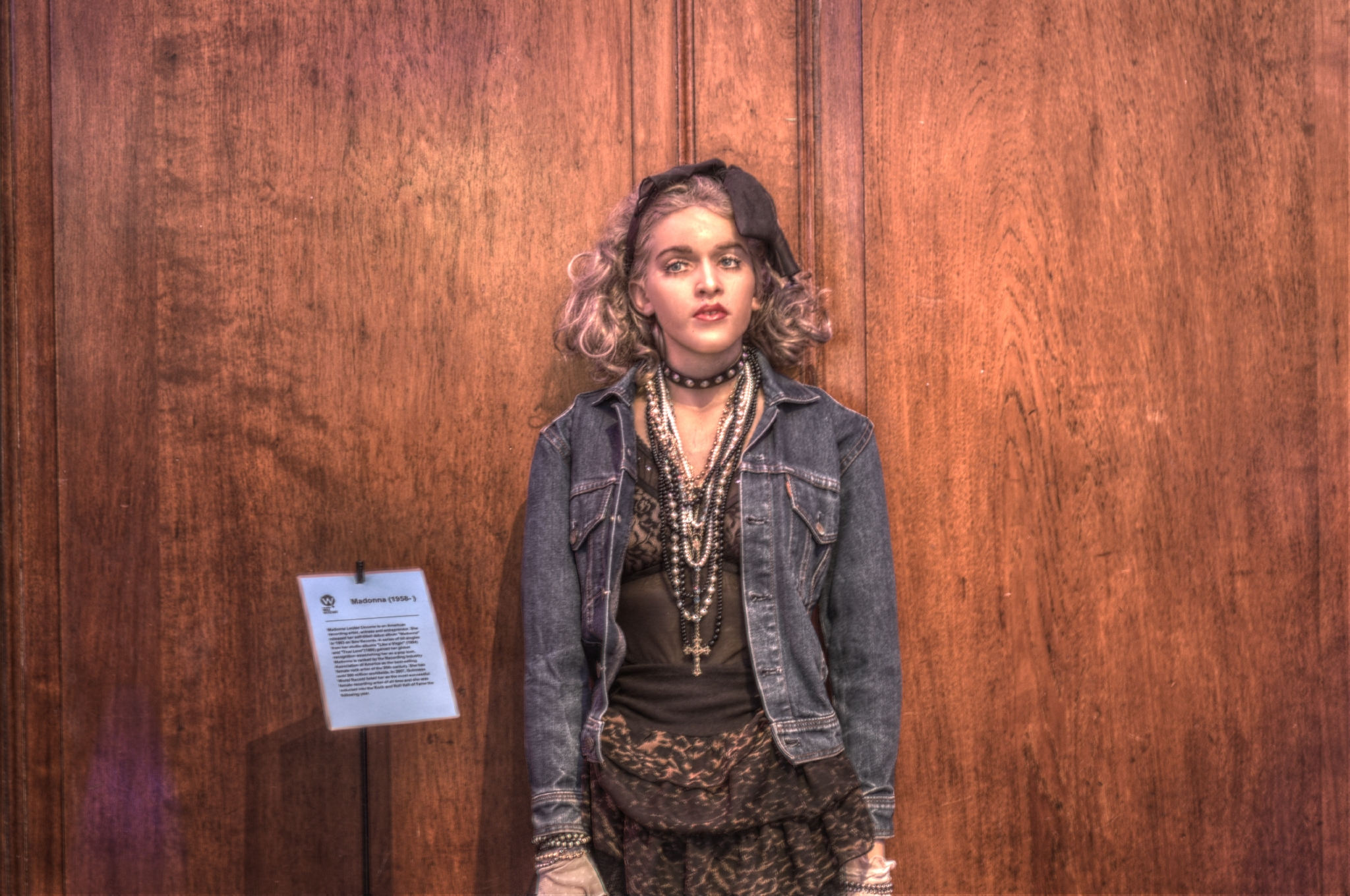 Madonna's wax statue at National Wax Museum of Ireland inspired by her style from the first album era.